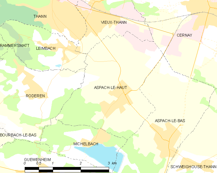 Map of French municipality